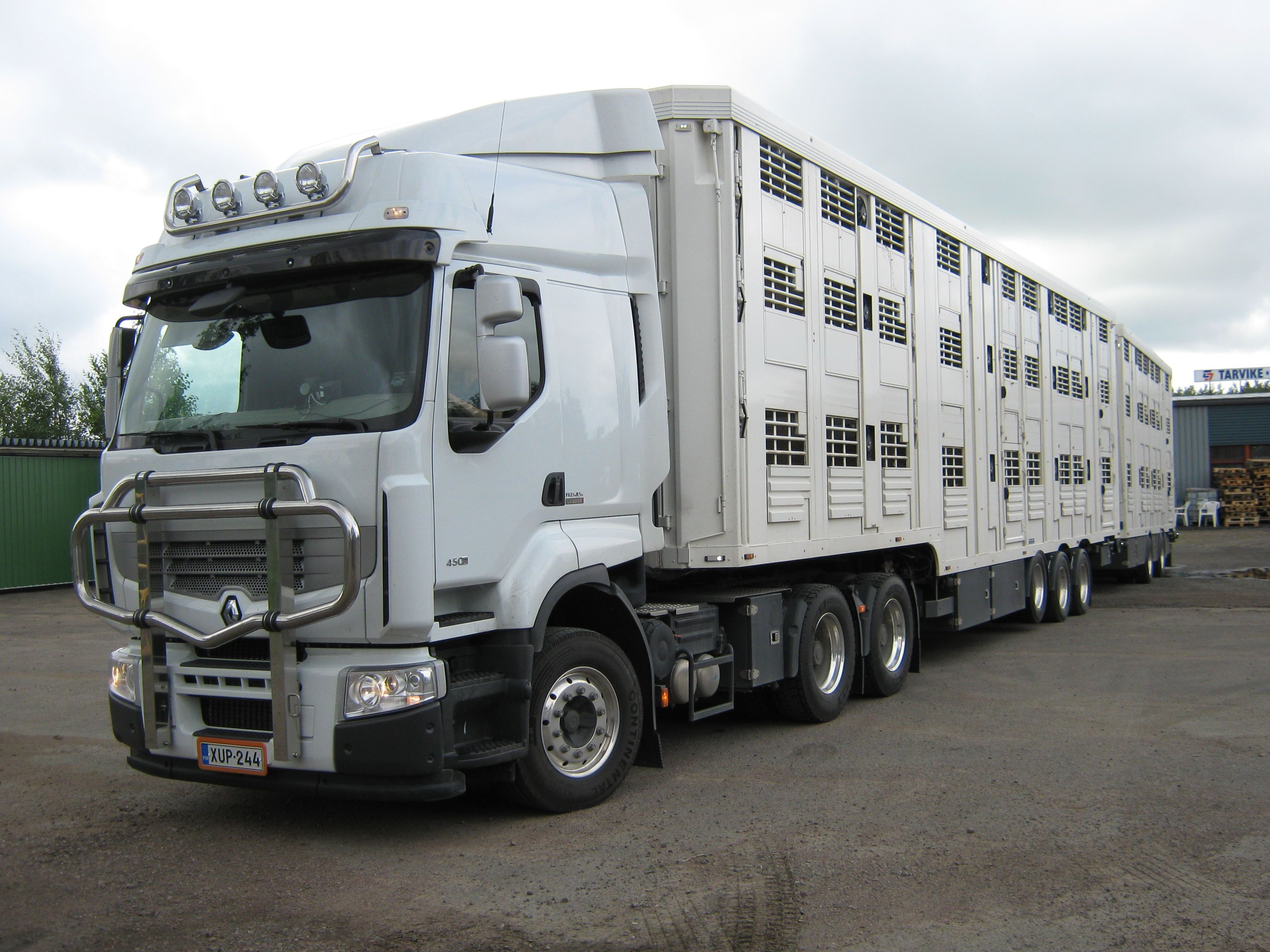 Renault animal transport truck in Finland